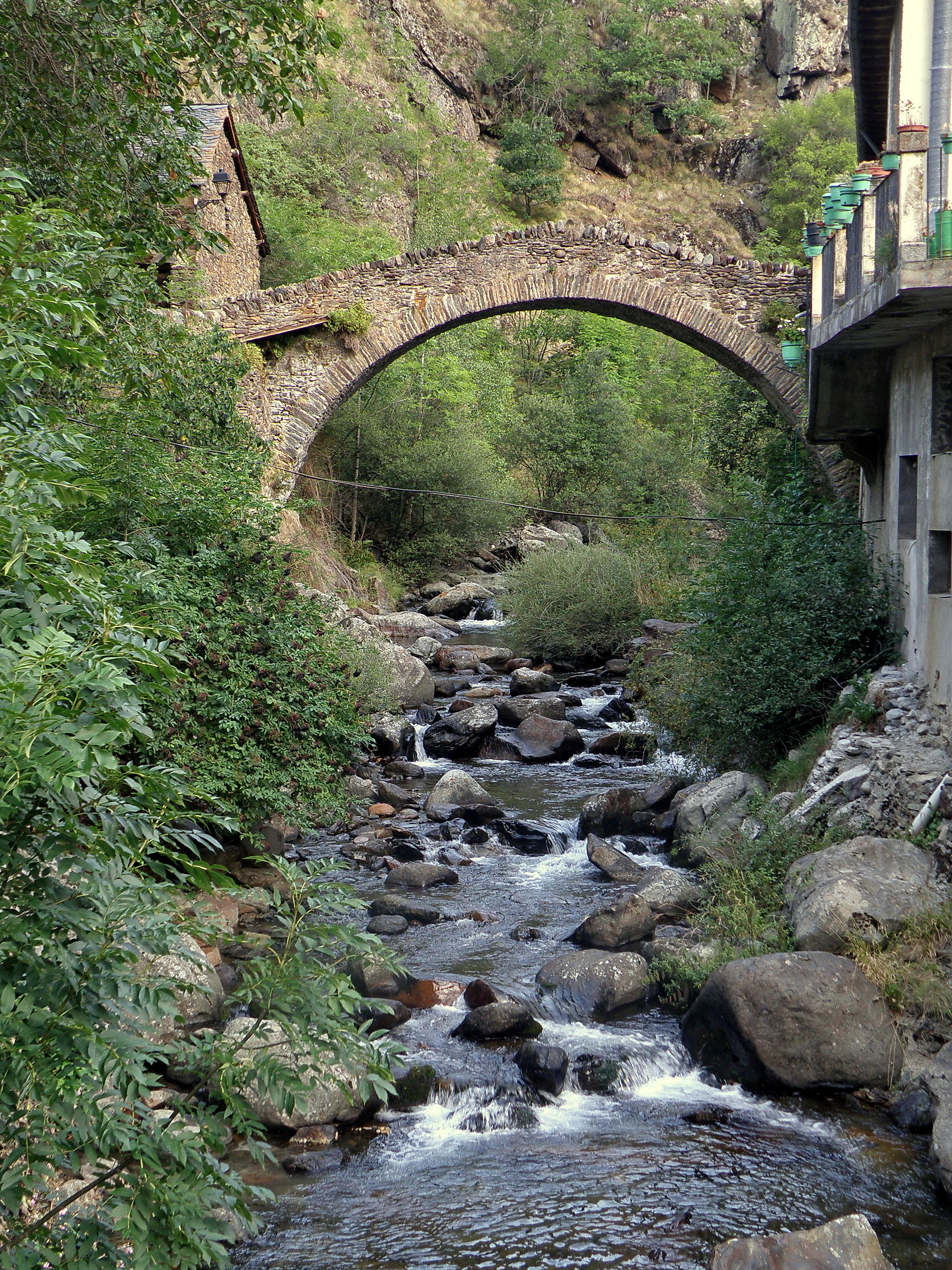 Romanesque foot bridge at Tavascan in the shire of Upper Pallars, Catalonia.